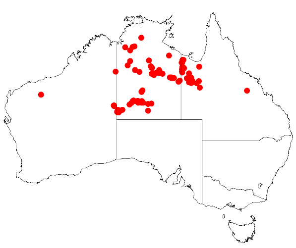 Acacia chippendalei Occurrence data from Australasia Virtual Herbarium downloaded from on 8 December 2018